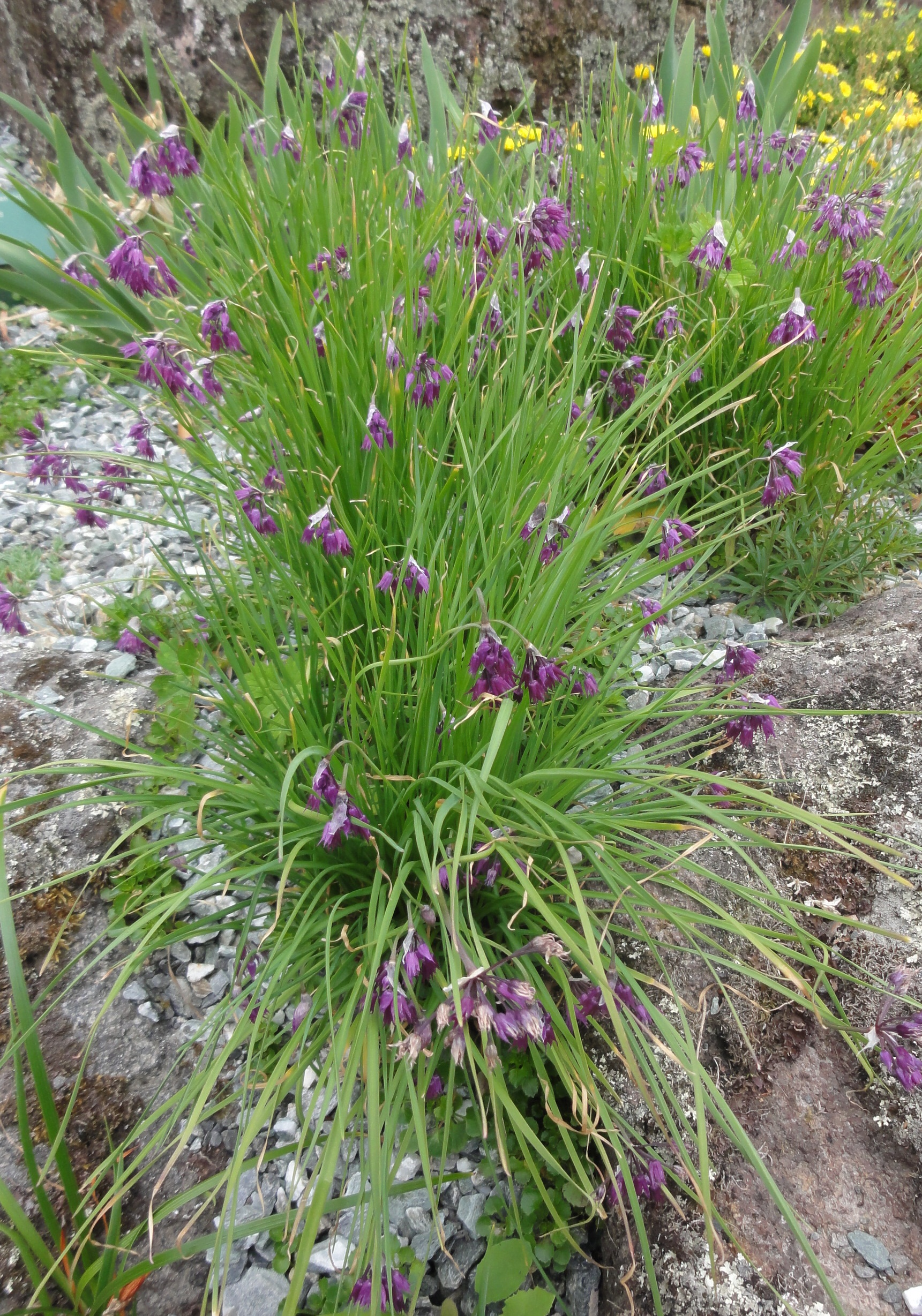 Allium cyathophorum var. farreri